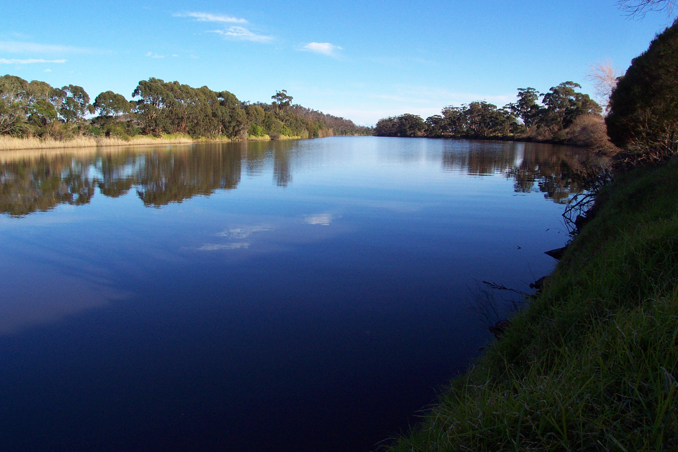 Snowy River between Orbost and Marlo (quite big because almost at sea level; backwater)